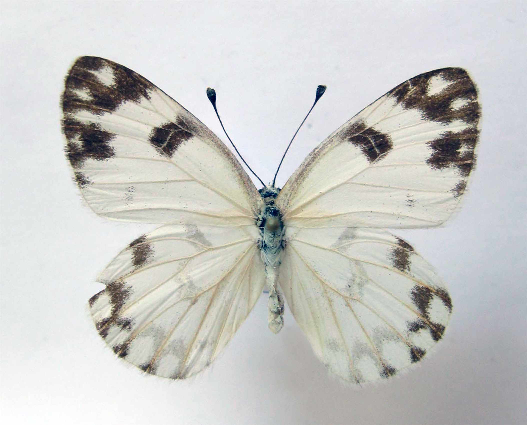 Pontia glauconome